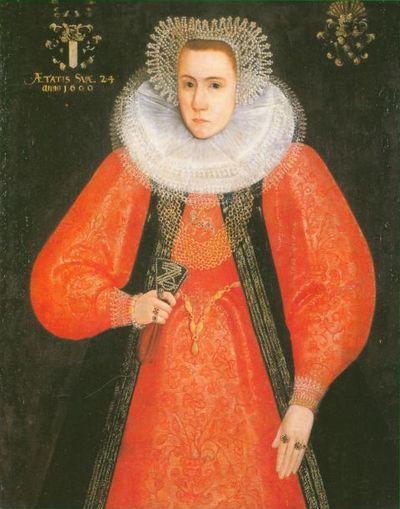 Birgitte Axelsdatter Brahe, lived 1576-1619